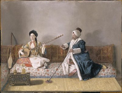 Portrait de Monsieur Levett et Mademoiselle Glavani Assis Sur un Divan en Costume Turc, The Louvre Museum, Paris